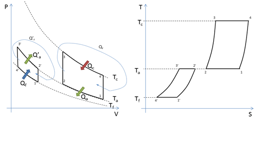 P-v diagram for duplex stirling machine